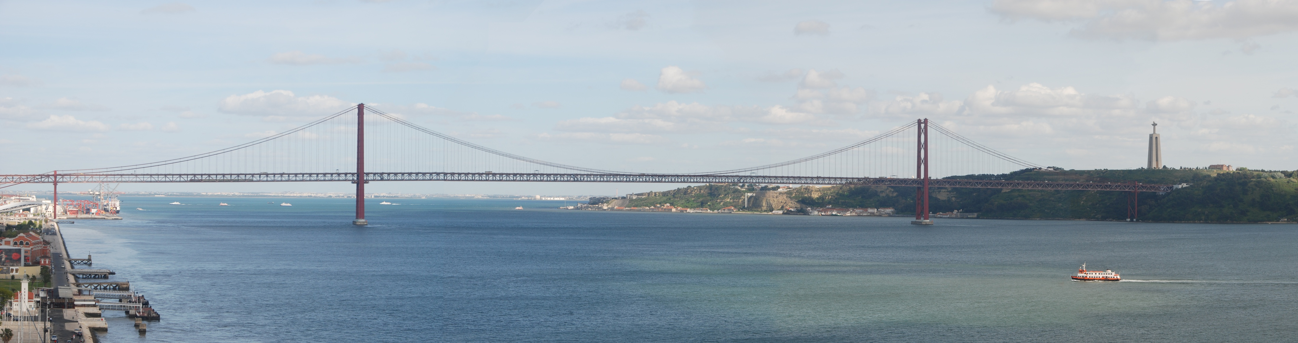 The bridge "25 de Abril" over the Tagus, Lisbon. View from Belém.